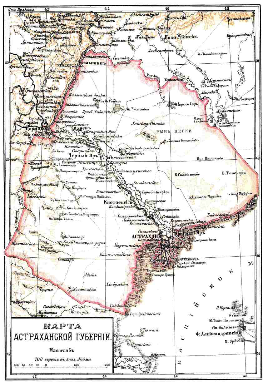 Map from Astrakhan Governorate from Brockhaus and Efron Encyclopedic Dictionary